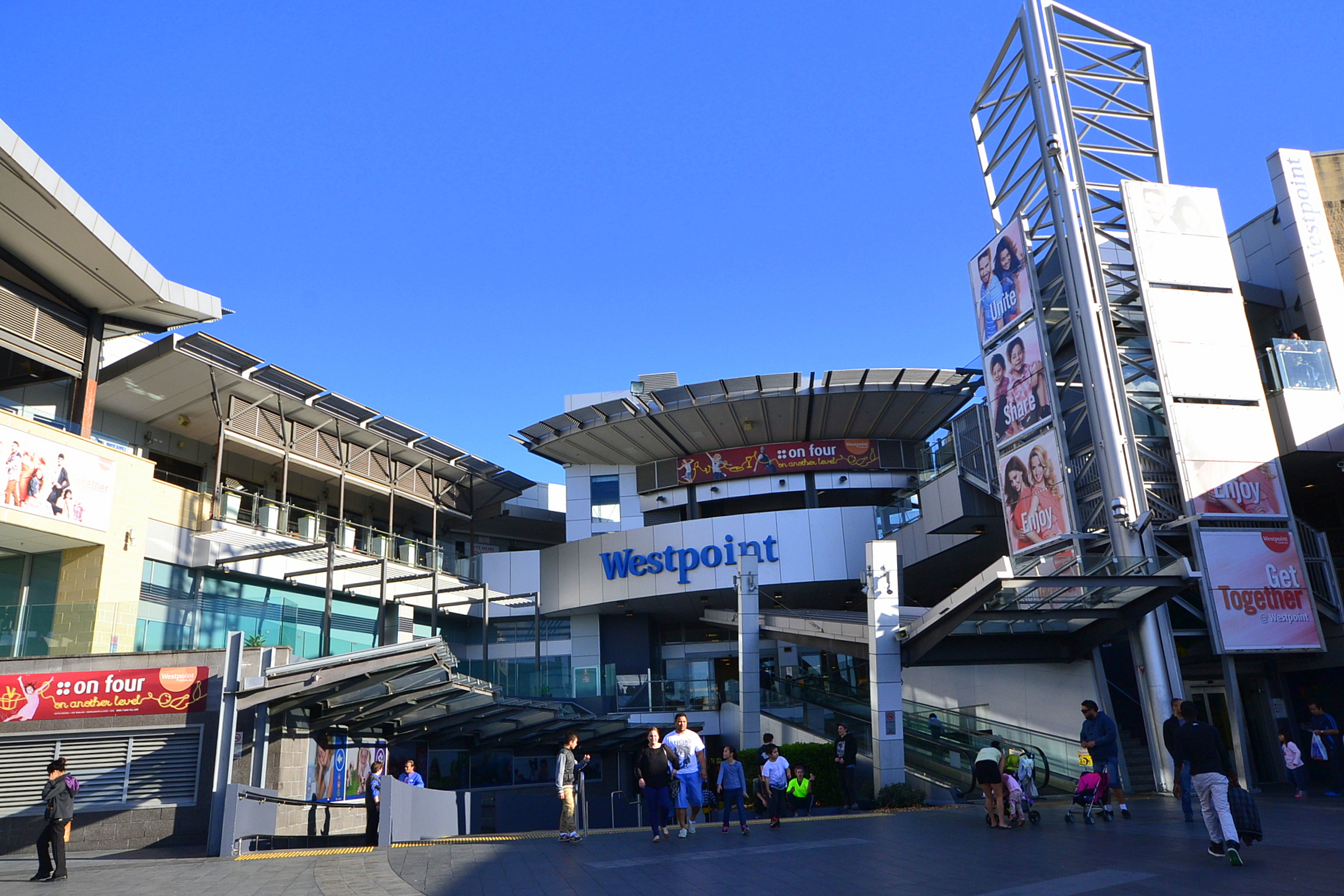 shops, Blacktown, Sydney